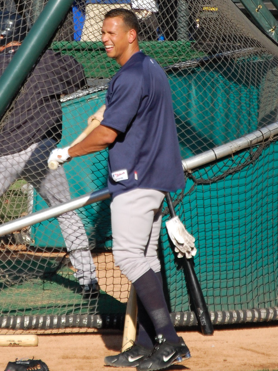 Alex Rodriguez at batting practice before the New York Yankees vs. Colorado Rockies game on June 19, 2007.